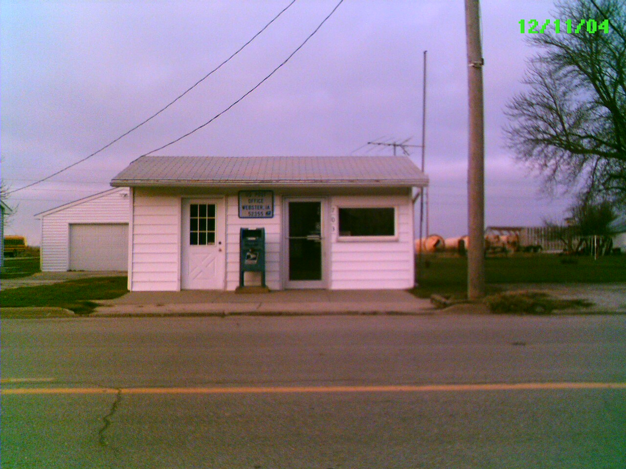 I took this myself, December 11, 2004 -AMB